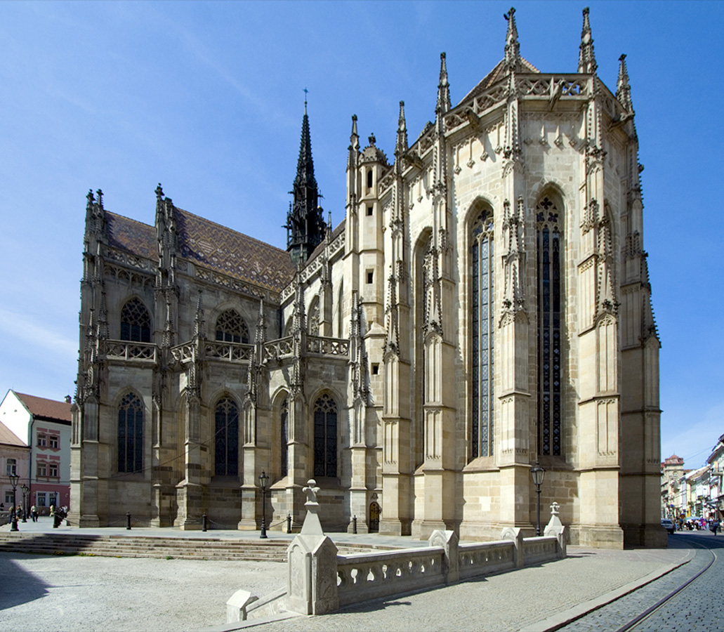 Kosice - St. Elisabeth Cathedral